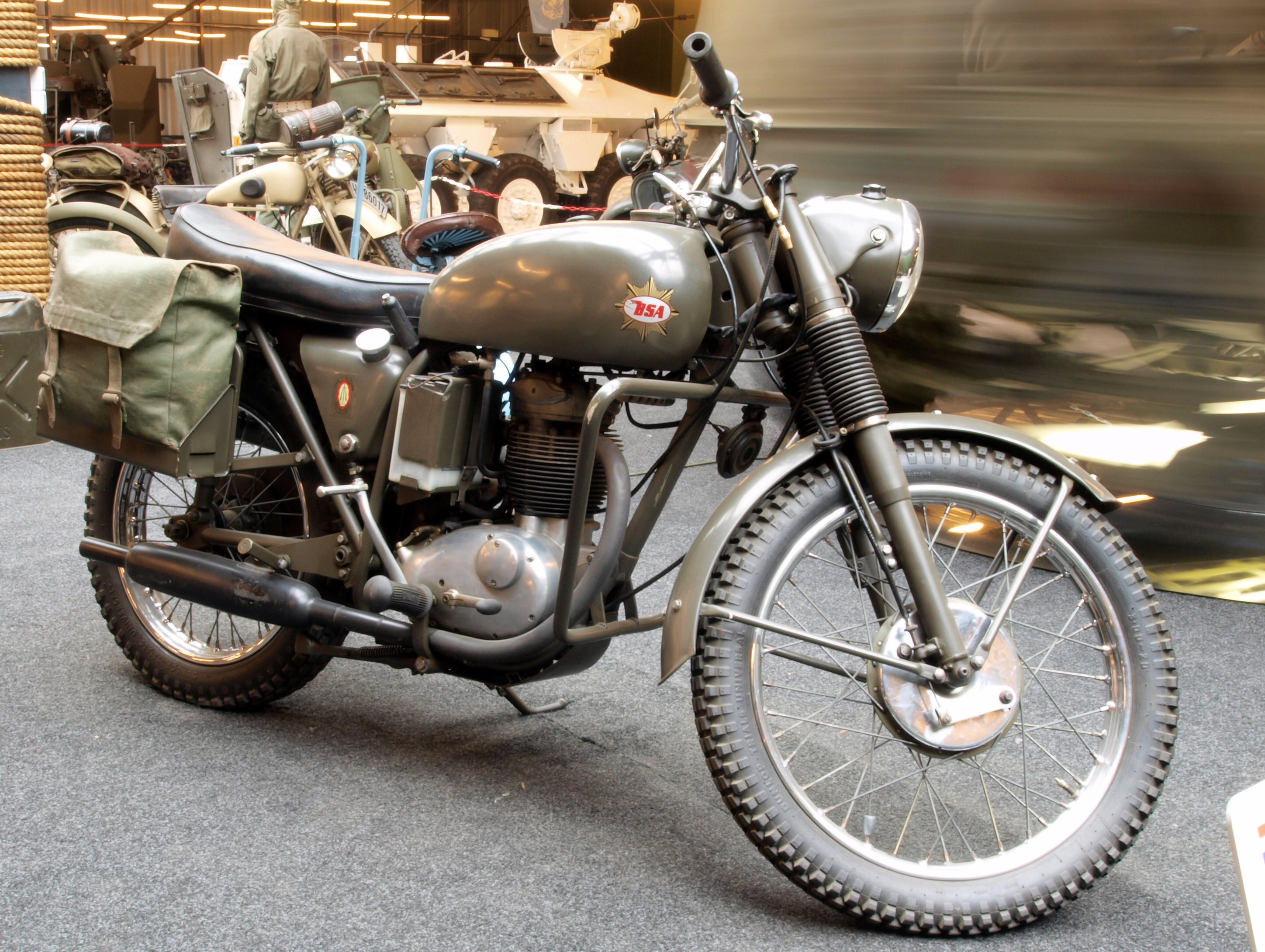 Photographed at the Marshallmuseum - Liberty Park - Oorlogsmuseum Overloon, The Netherlands.